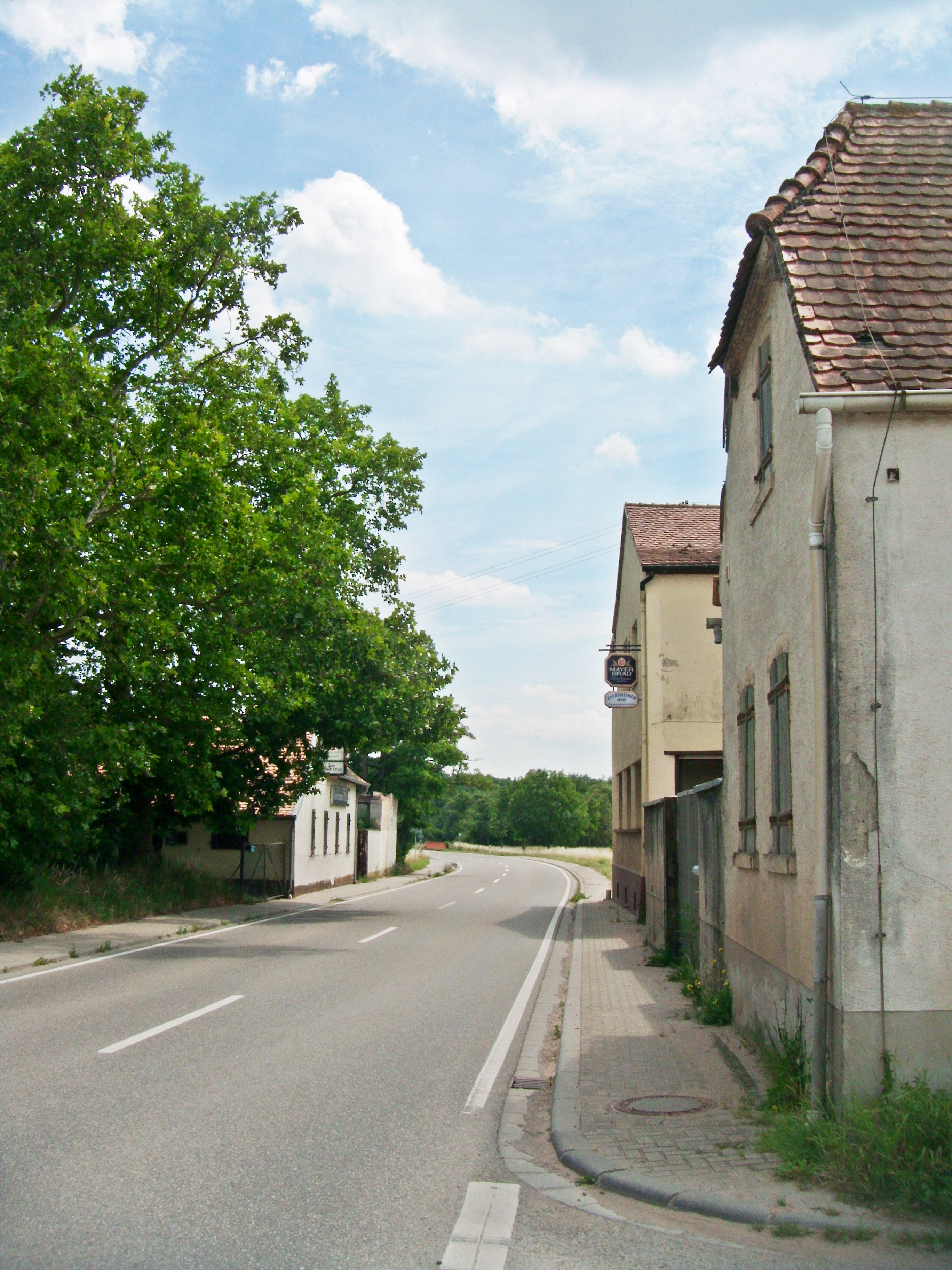 Eyersheimer Hof von Norden